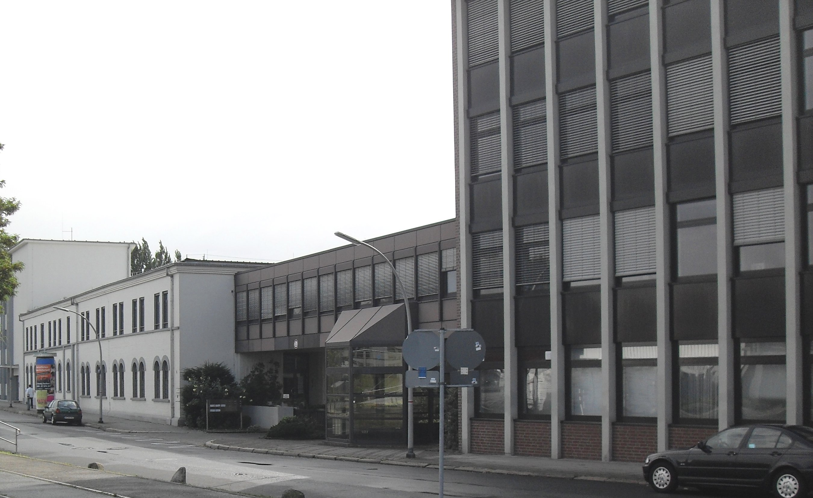 Main entrance of BMA AG in Braunschweig, Germany